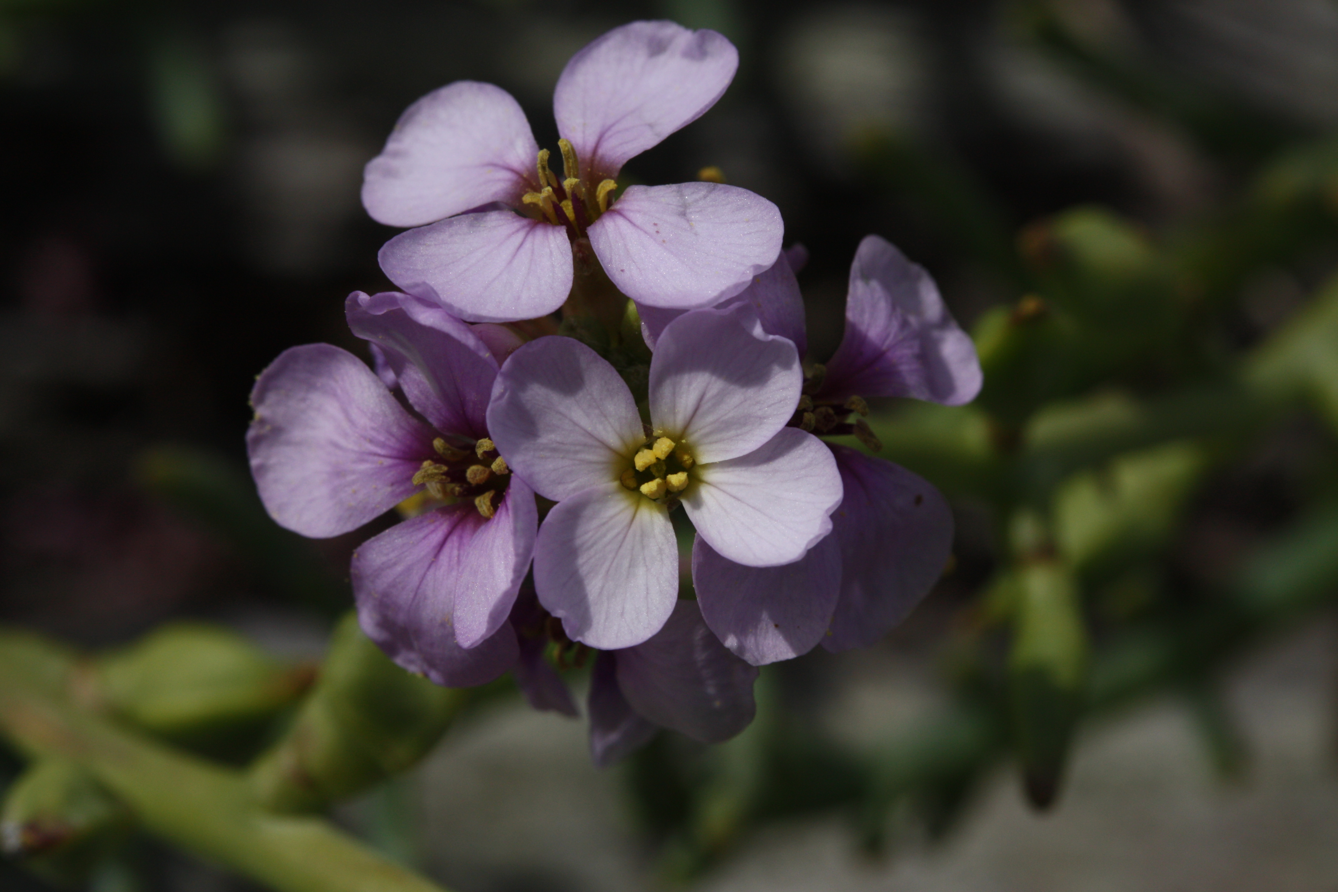 European Searocket